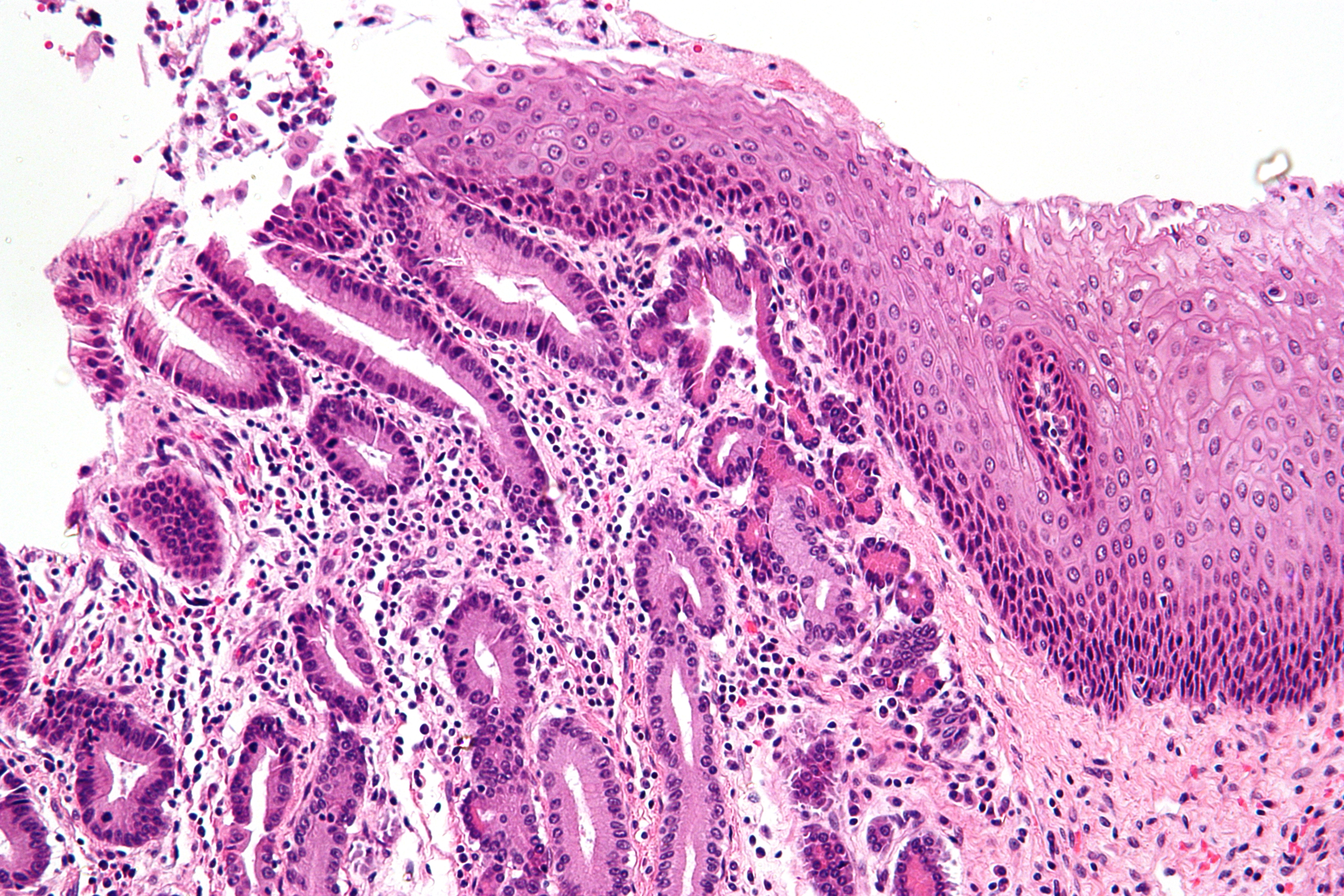 High magnification micrograph of pancreatic acinar metaplasia, also pancreatic metaplasia, at the gastro-esophageal junction. H&E stain. Related images Low mag. Intermed. mag. High mag.